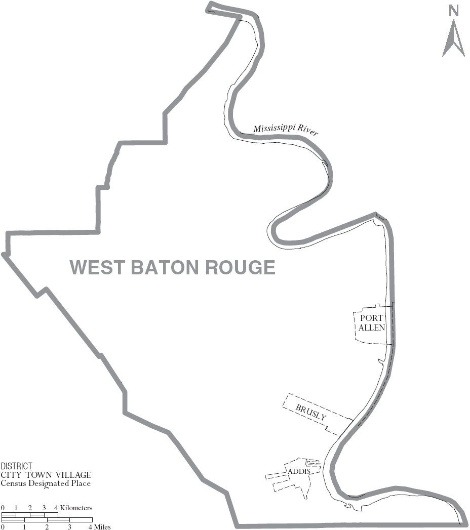 Map of West_Baton_Rouge Parish, Louisiana, United States with municipal boundaries